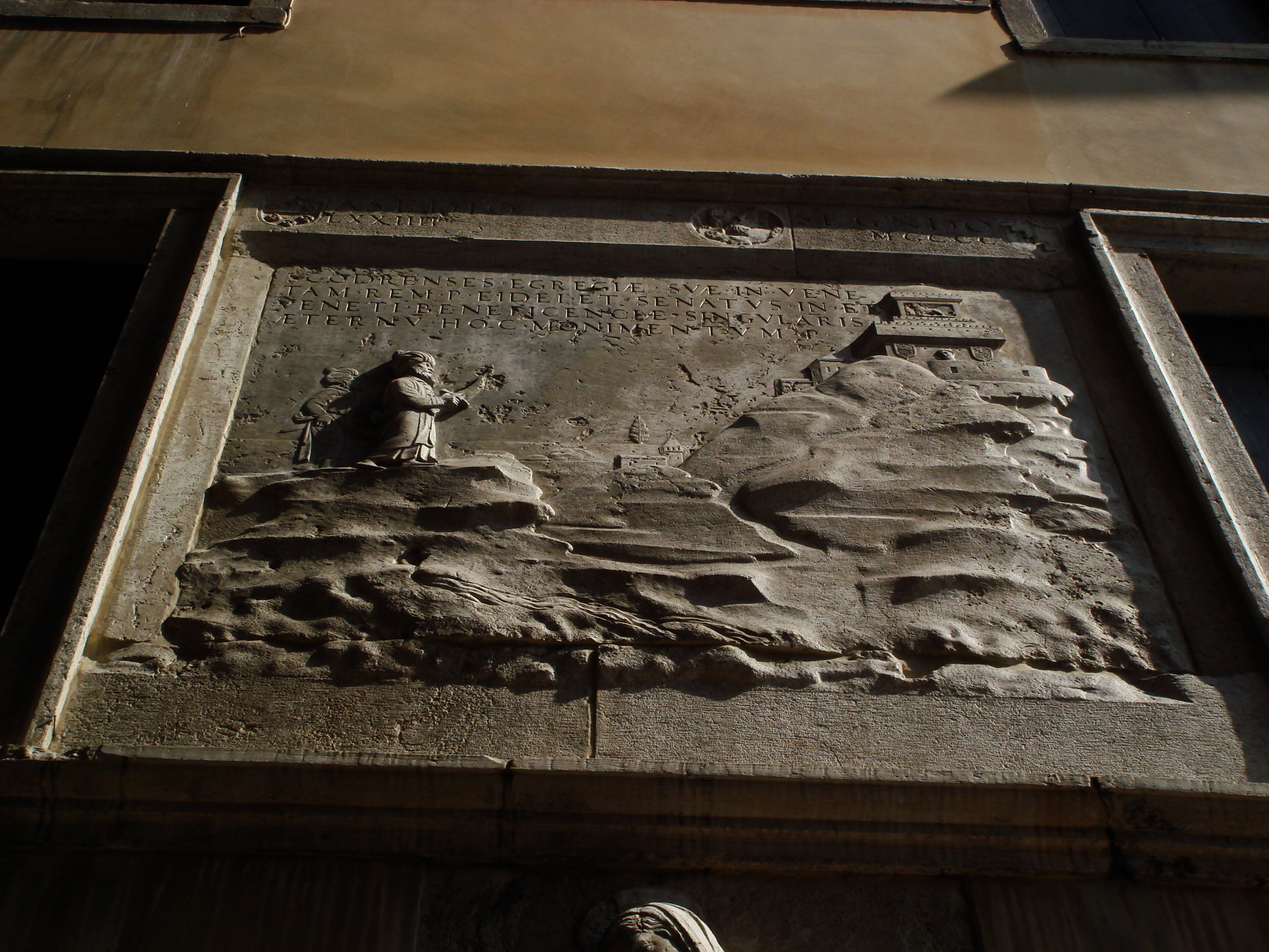 Venice, 1532, sculptor unknown (erroneously attributed to Vittore Carpaccio). The Ottoman sultan Mehmet II assieging in vain the Albanian town of Scutari (under Venetian rule). Renaissance relief, dated 1474, on the facade of former Scola degli Albanesi ("guildhall of the Albanians"), in Campo San Maurizio square. The latin inscription thanks the Venetian government. Scene depicts the siege of Shkodra. Picture by Giovanni Dall'Orto, August 12, 2007.